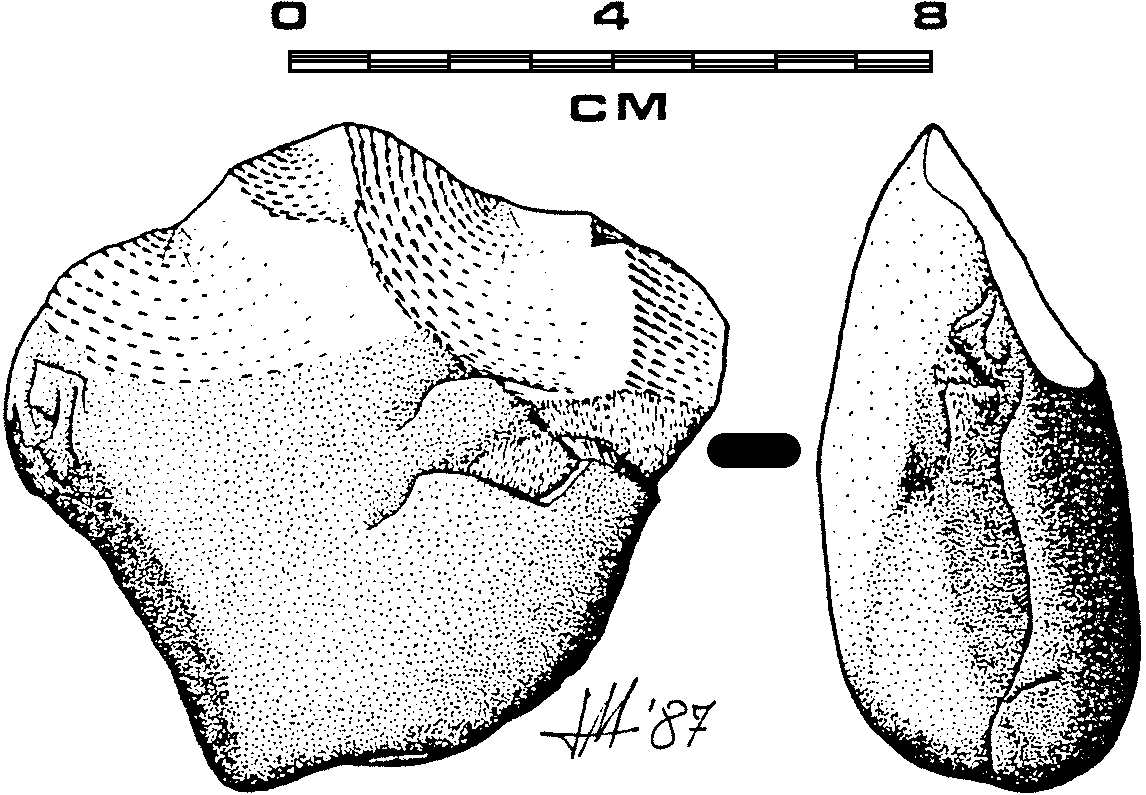 Lithic chopper in quartzite, its comes from a fluvial quaternary terrace in Trabancos brook (Valladolid, Duero basin, Spain) and it is dated in Acheulean period (Lower Paleolithic)